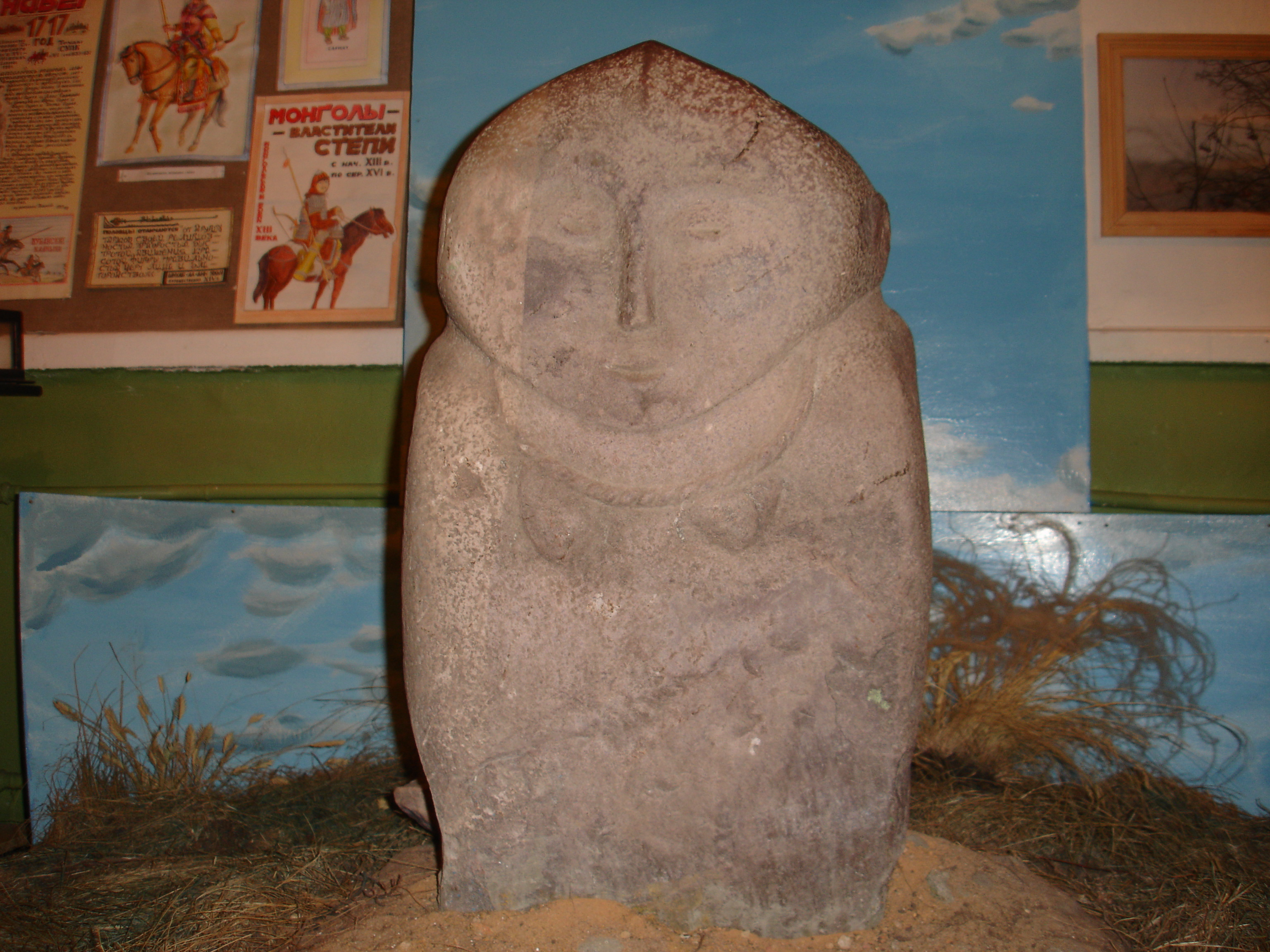 Kurgan stele found in 1966 in Rtishchevsky region of the Saratov area (near village Taptulino)